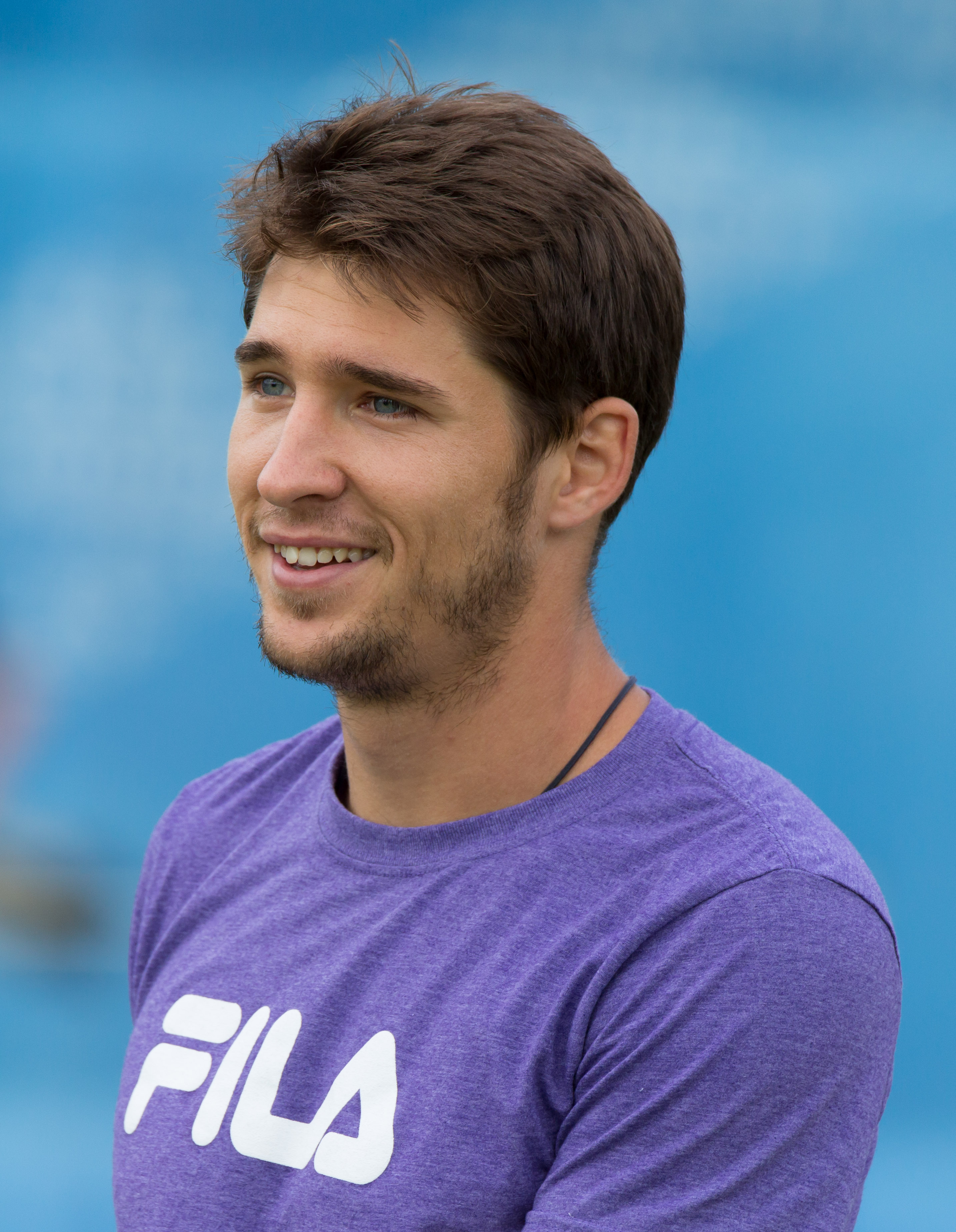 Dušan Lajović during practice at the Queens Club Aegon Championships in London, England.